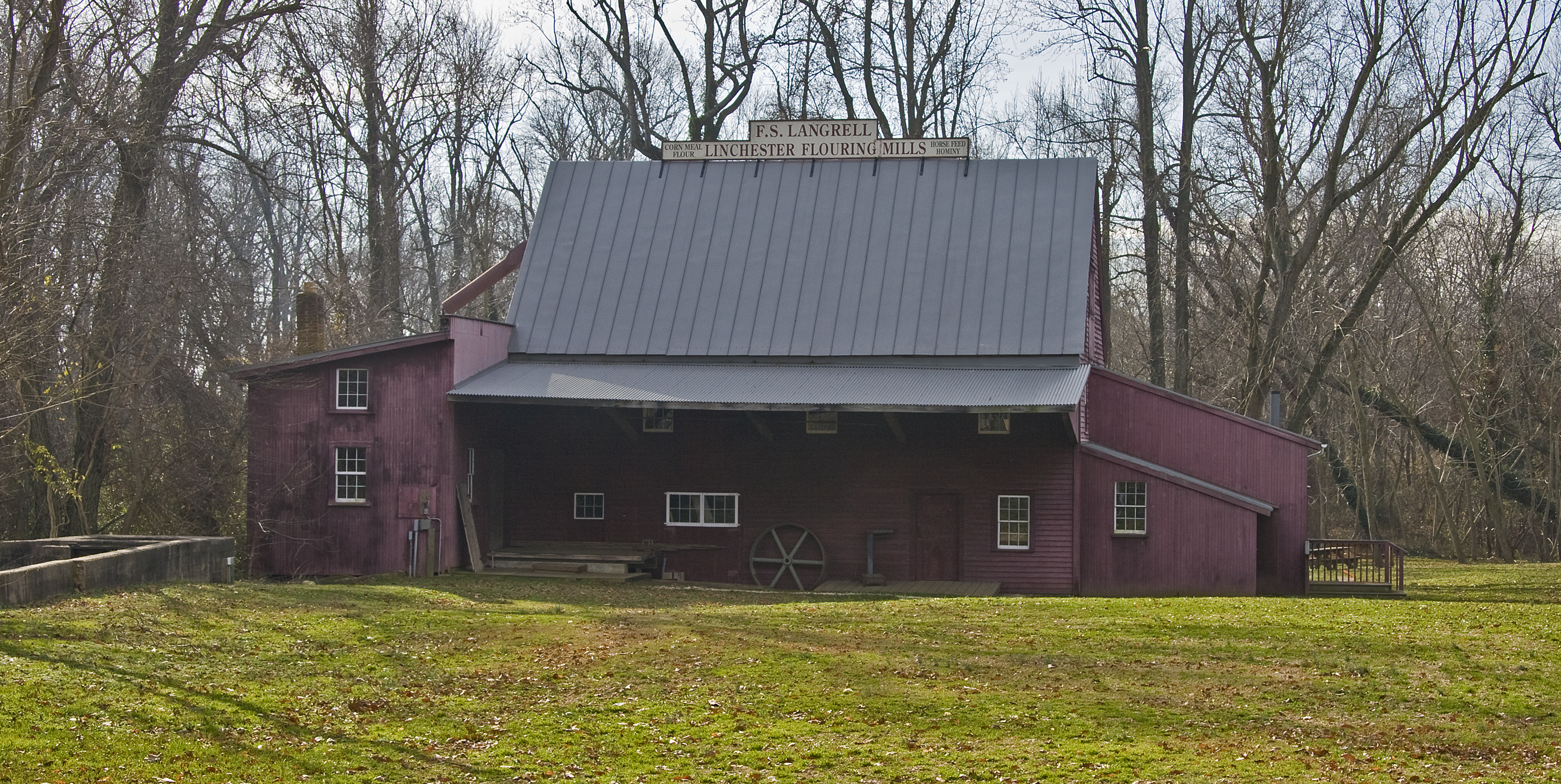 Linchester Mill front, Preston, Maryland, USA